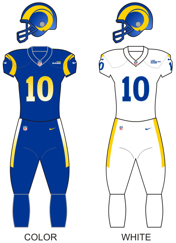 The uniforms of the Los Angeles Rams since the 2020 NFL season.